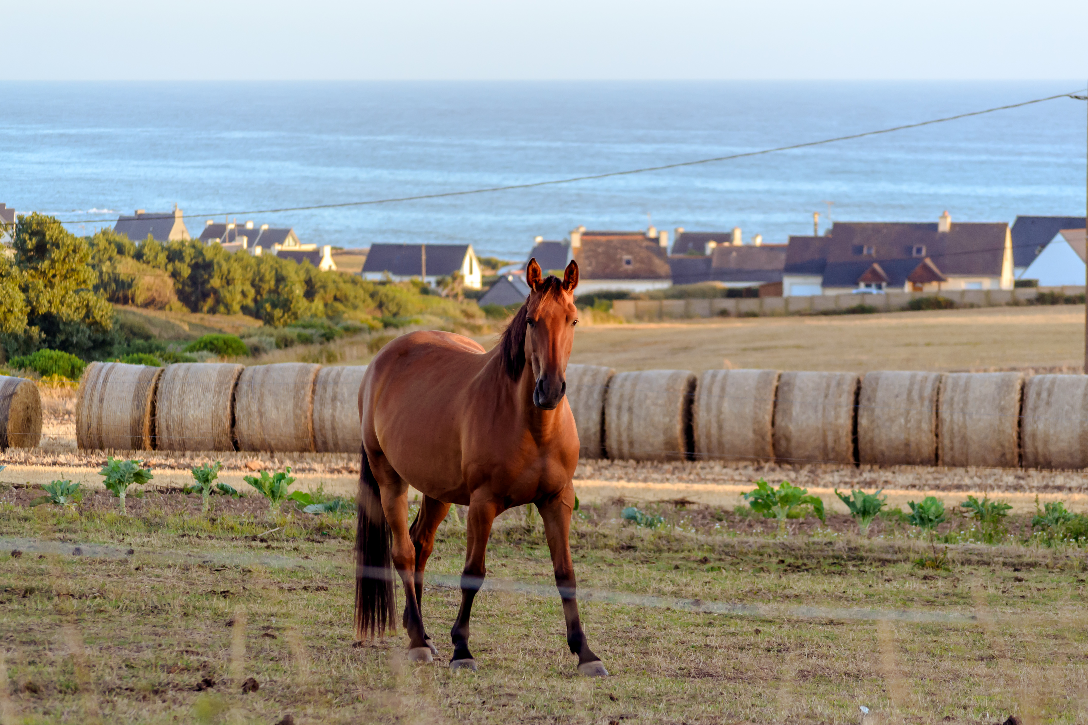 Horses bred in Plozevet (Brittany).